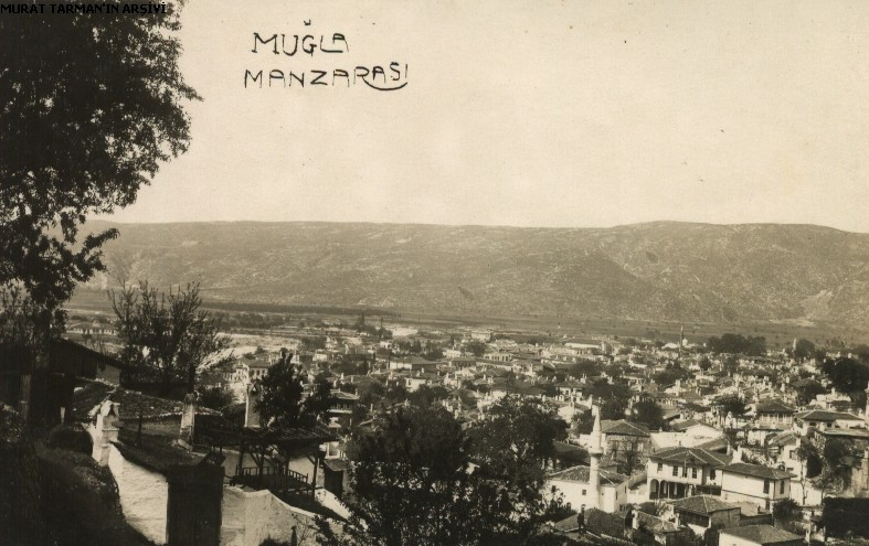 Muğla, Turkey